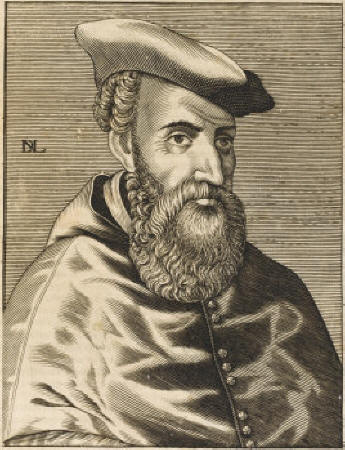 Portrait of Alessandro Piccolomini (1508-1579)